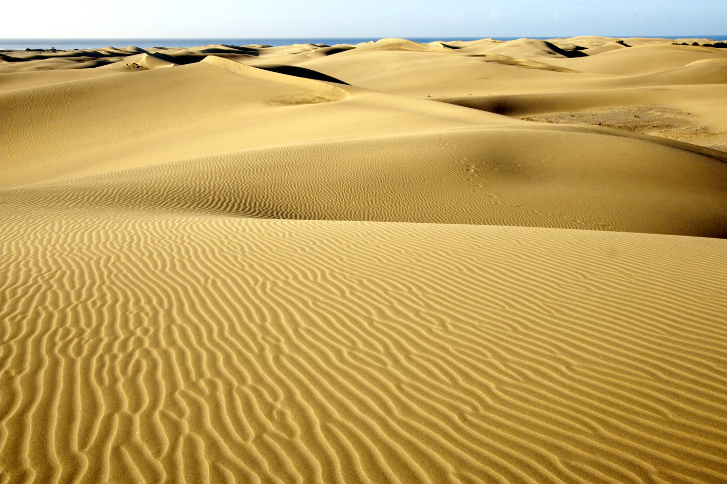 I visited the Gran Canaria during the winter when my house was cold, but here, the Maspalomas sand dunes and through them when you need to go, burning feet, because the sand is very hot ... In the past, childhood told me that the sand so hot that it can bake eggs and it was all true ...